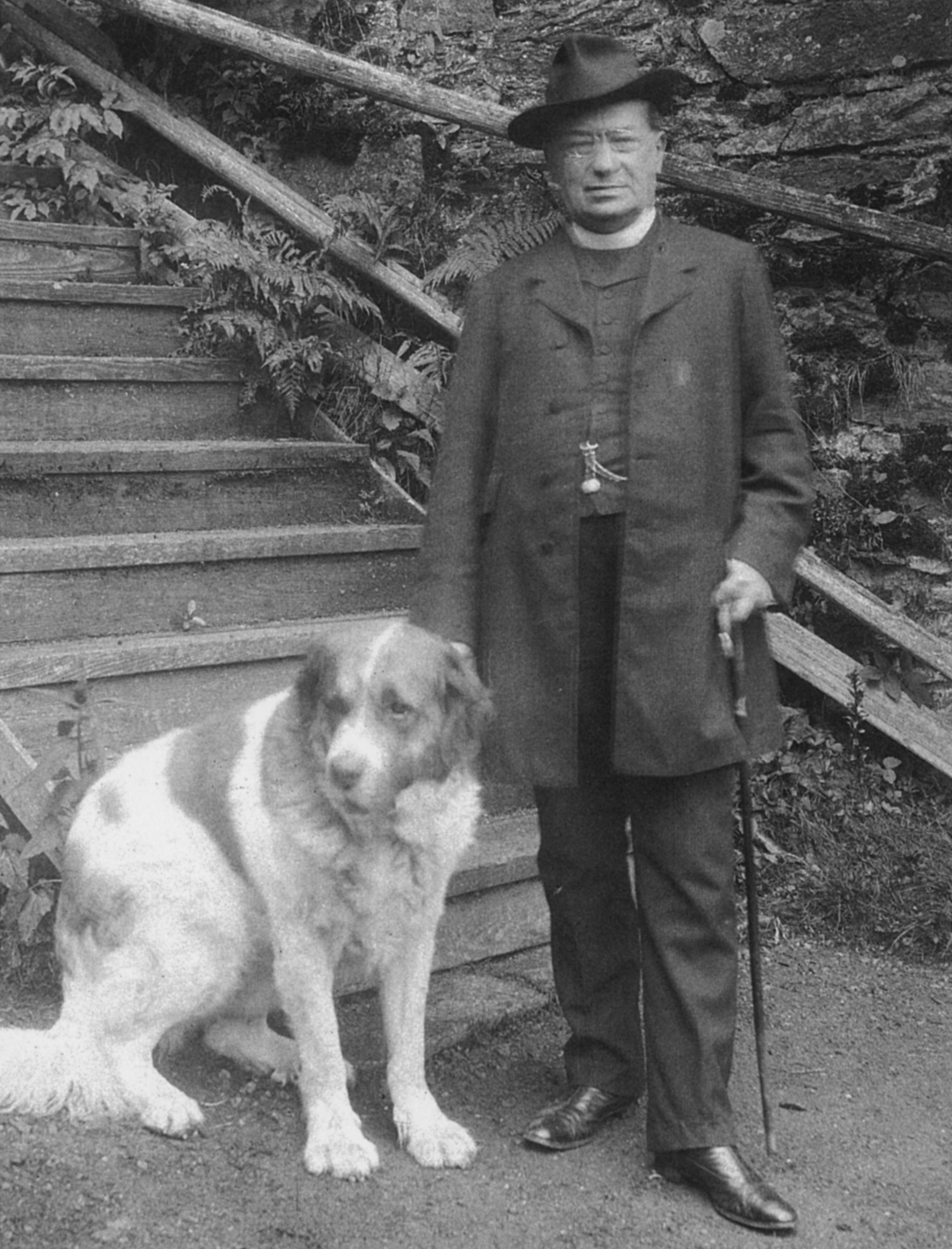 Petschar, Friedlmeier, Steiermark in alten Fotografien, Ueberreuther Verlag Wien. Scanprojekt Community Projektbudget 2012 This scan or this PDF-file was created within the GLAM-project Bookscanning, supported by Wikimedia Germany and Wikimedia Austria as a part of the community-project to capture books, documents and pictures which are not eligible to copyright or for which the copyright has expired. This document describes or depicts an object which is located in Austria today. Texts are written German language. Send requests for uncompressed scans to Hubertl. This work is in the public domain in its country of origin and other countries and areas where the copyright term is the author's life plus 100 years or less. You must also include a United States public domain tag to indicate why this work is in the public domain in the United States. This file has been identified as being free of known restrictions under copyright law, including all related and neighboring rights.